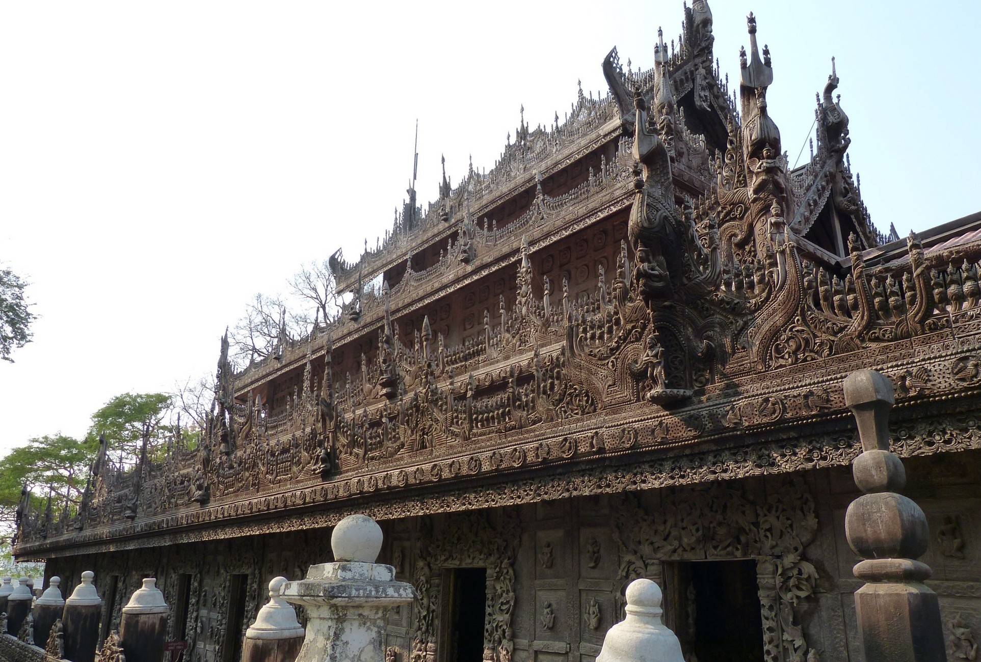 Shwenandaw Kyaung, Mandalay Division